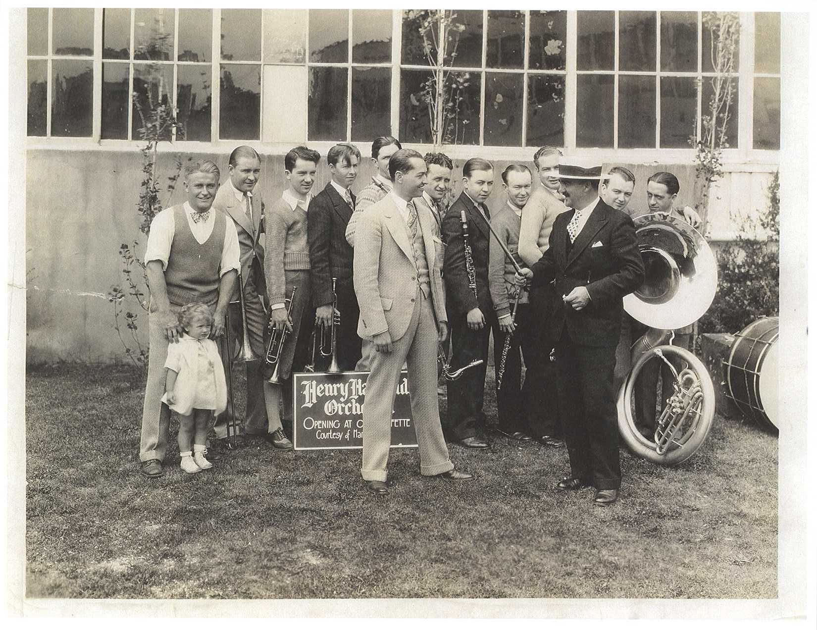 Henry Halstead and His Orchestra with Phil Harris and Red Nichols as band members in background